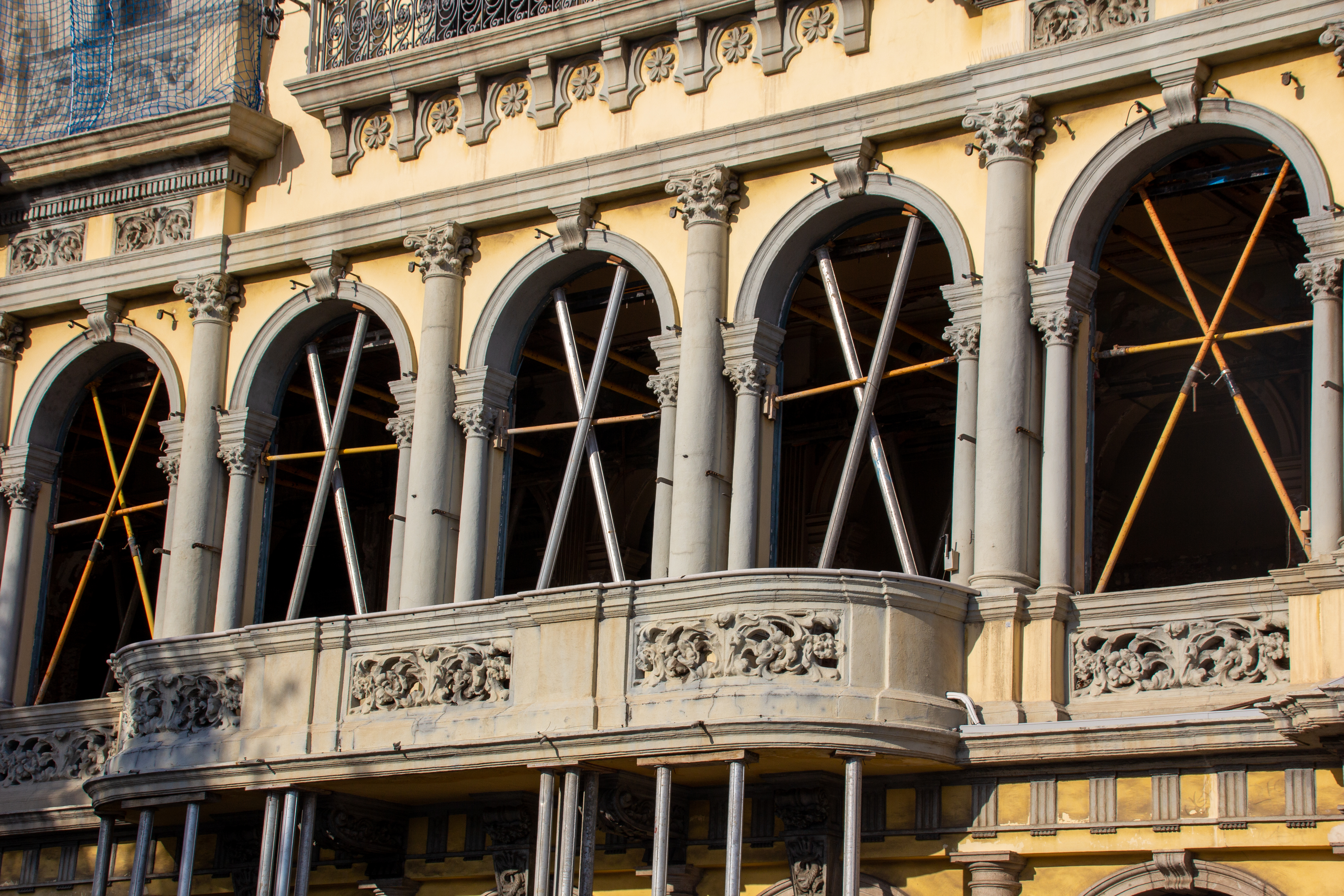 Barcelona